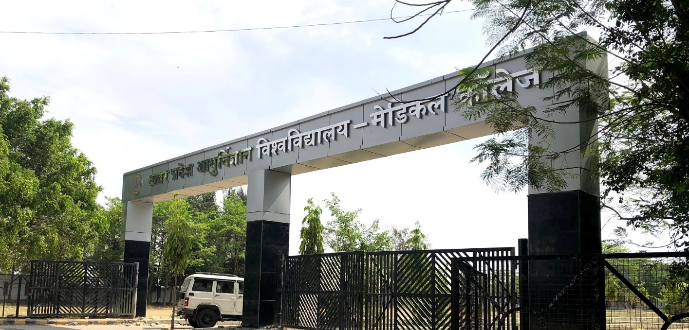 उत्तर प्रदेश आयुर्विज्ञान विश्वविद्यालय - मेडिकल कॉलेज (सैफई) का प्रवेश द्वार। यूपीयूएमएस - मेडिकल कॉलेज, सैफई Uttar Pradesh University of Medical Sciences - Medical College (Saifai) entrance. UPUMS Medical College, Saifai